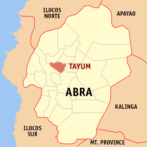 Map of Abra showing the location of Tayum